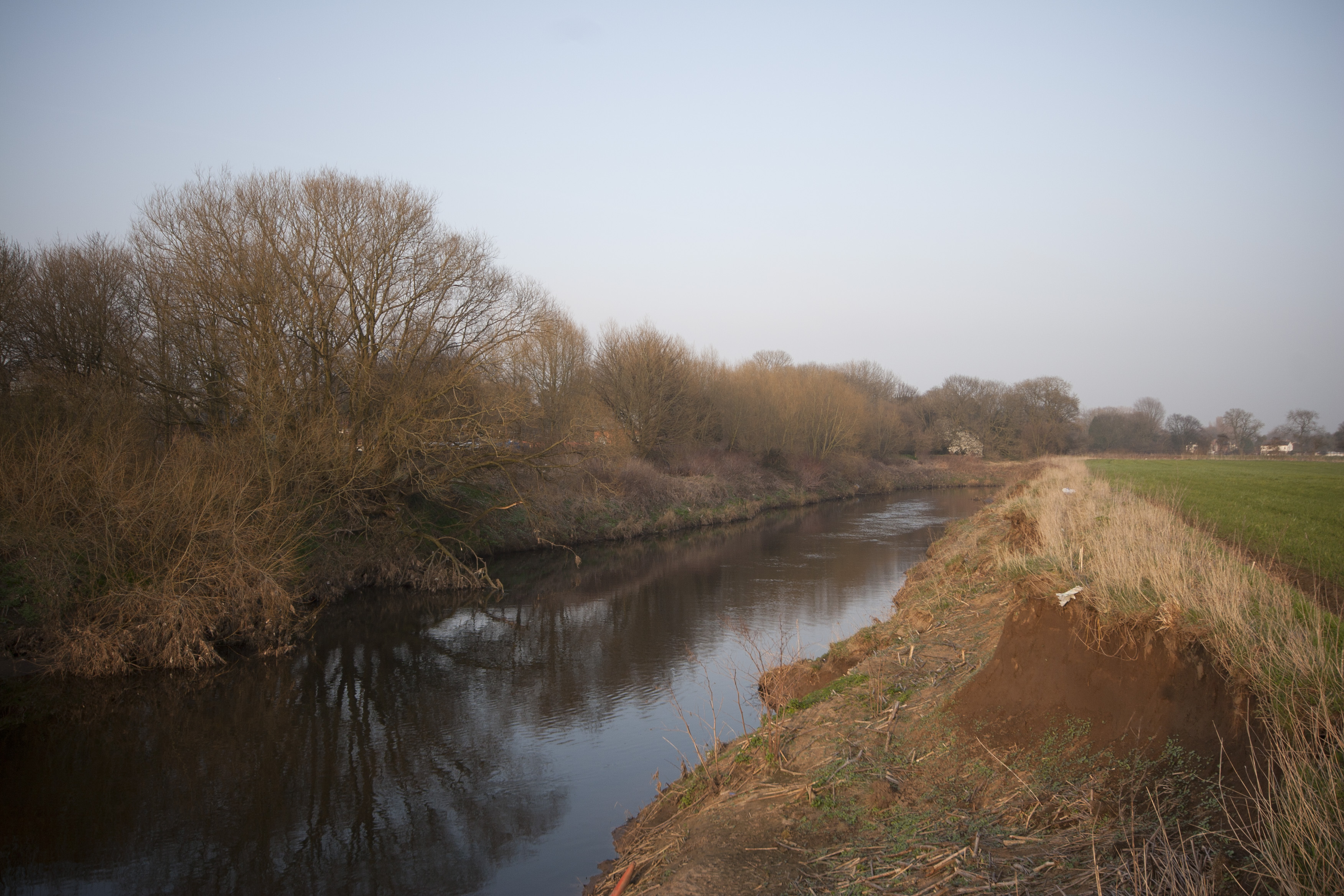 The River Mersey, running past Flixton. Image taken from the river's south bank, east of Flixton Bridge.